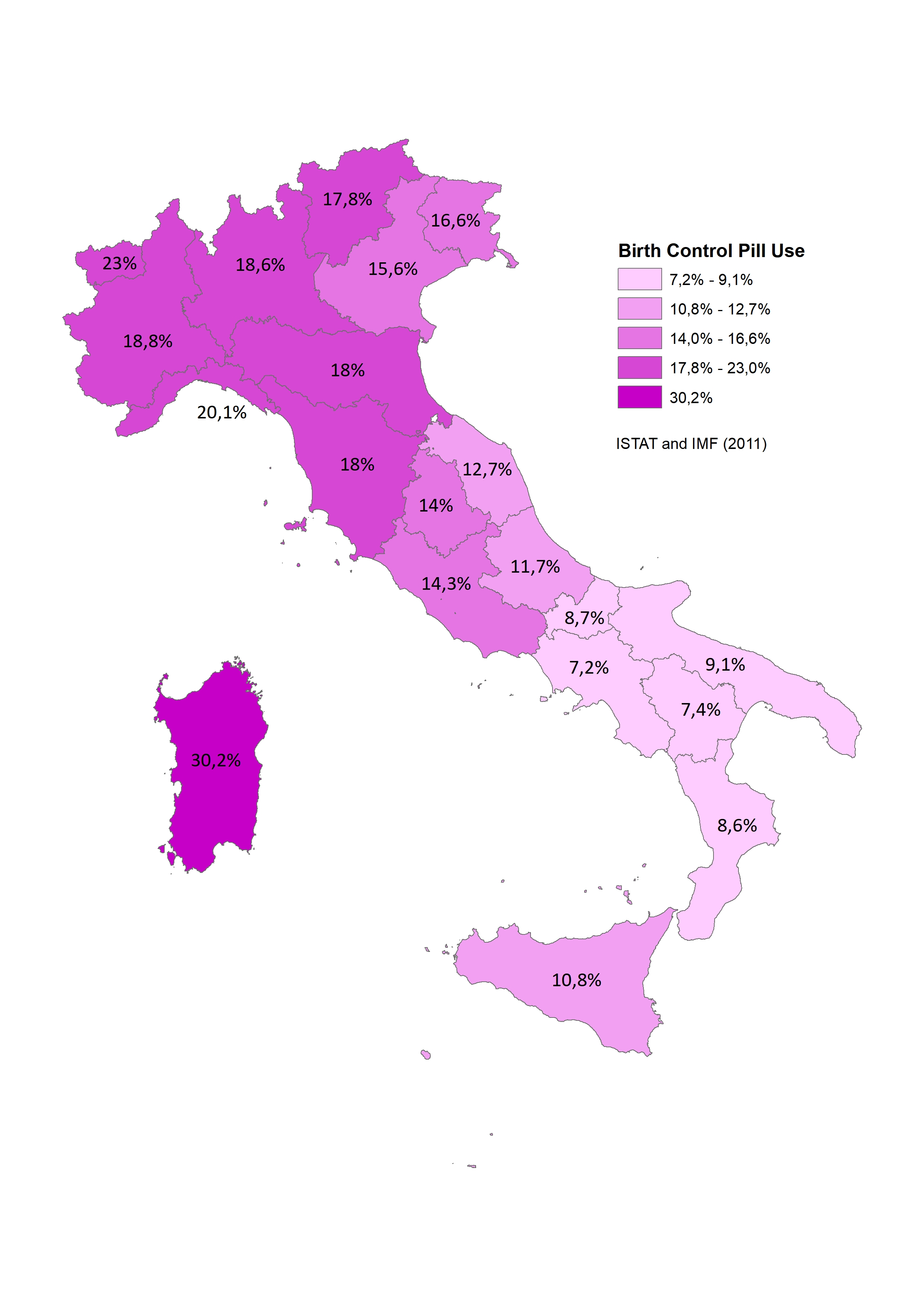 Sources ISTAT and IMF 2011